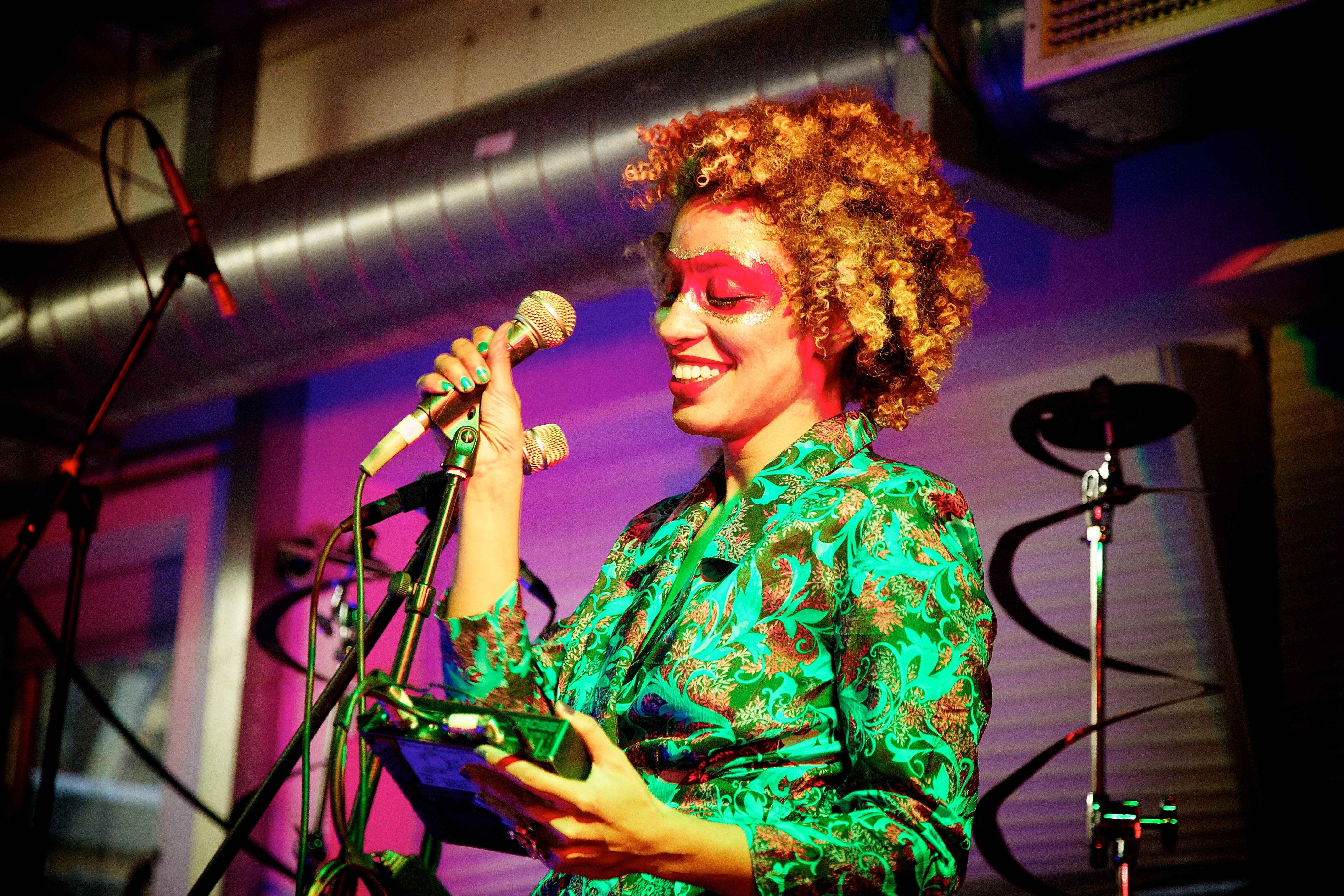 Martina Topley-Bird at Rough Trade East, Brick Lane, London.